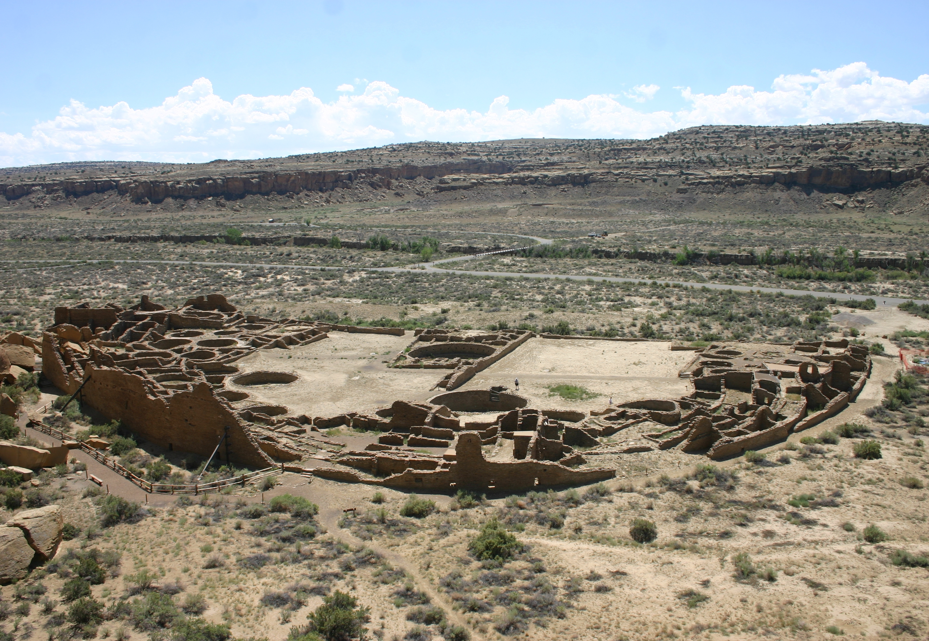 This is a photo of Pueblo Bonito in Chaco Culture National Historical Park, in New Mexico, United States.